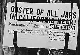 Newspaper 'San Francisco Examiner' showing headlines of Japanese relocation, San Francisco, California, United States, 26 Feb 1942